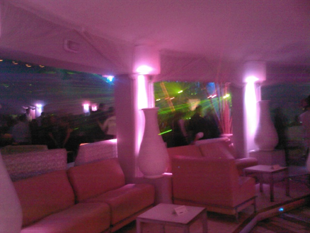 la bussola versilia